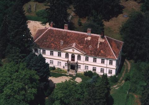 Szarvaskend, Hungary, aerialphotography